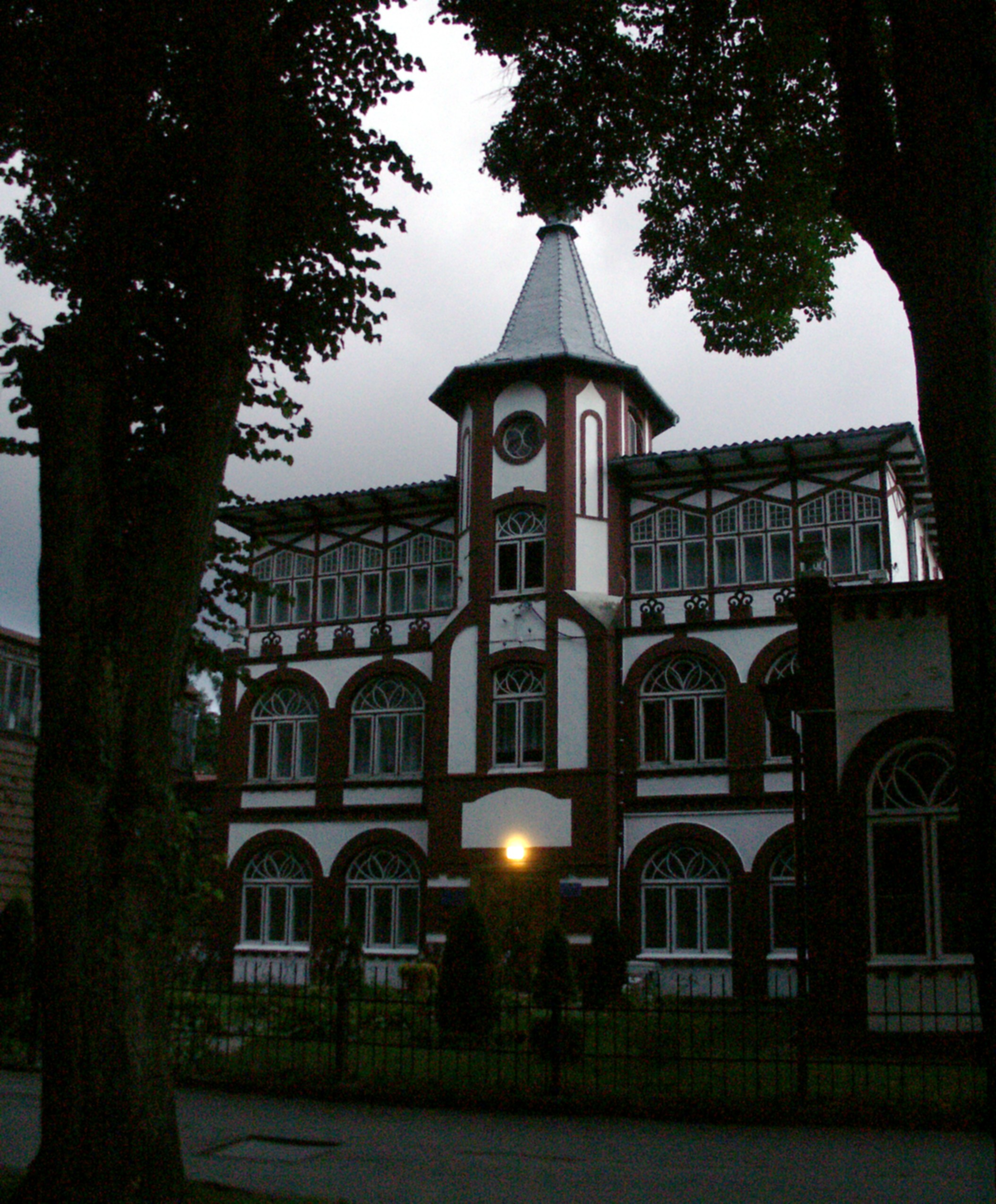 Water tower in Svetlogorsk in Kaliningrad oblast